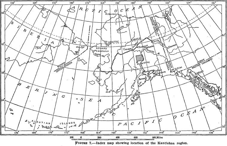 KantishnaRegion